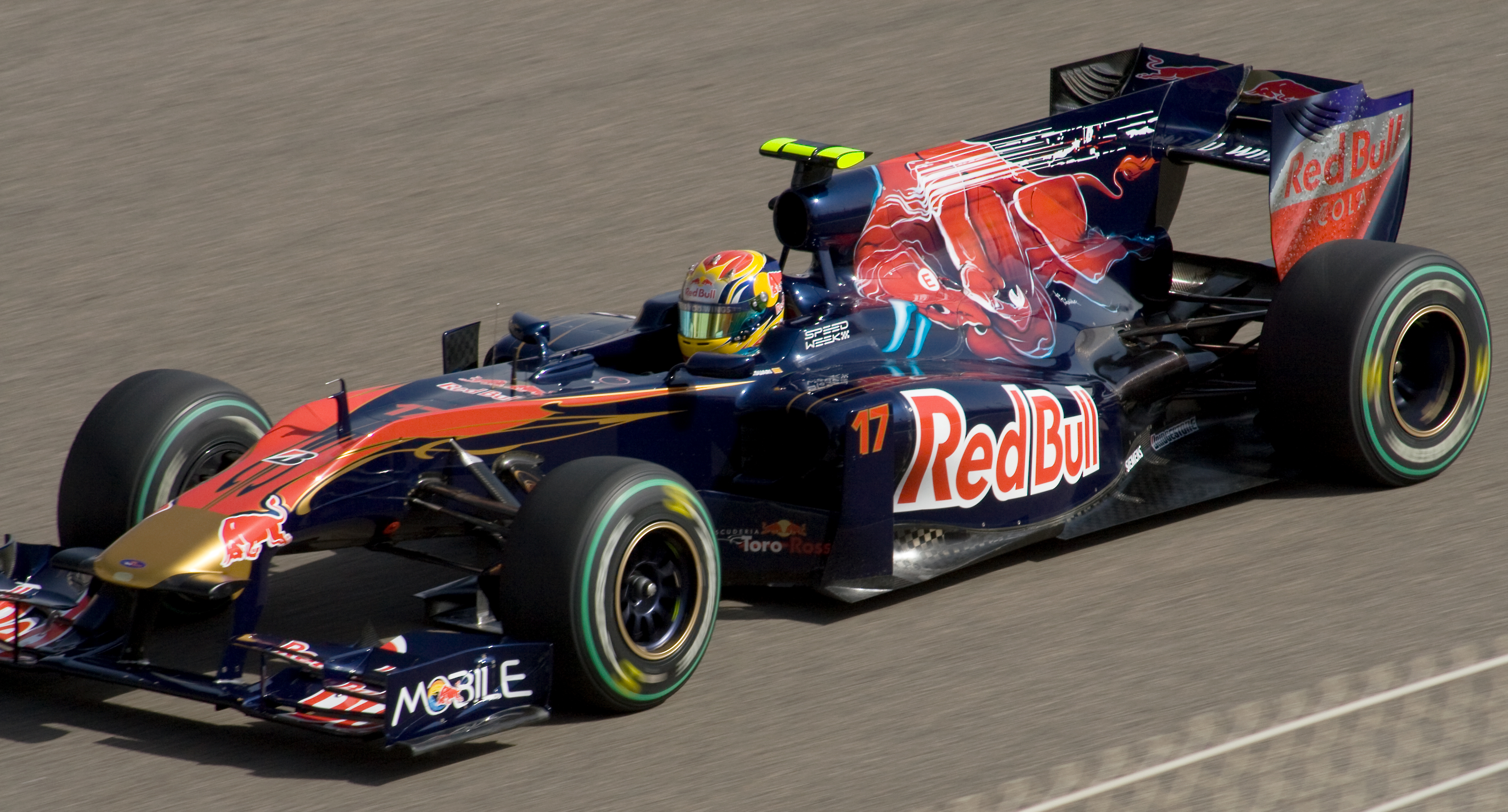 Jaime Alguersuari driving for Scuderia Toro Rosso at the 2010 Bahrain Grand Prix.